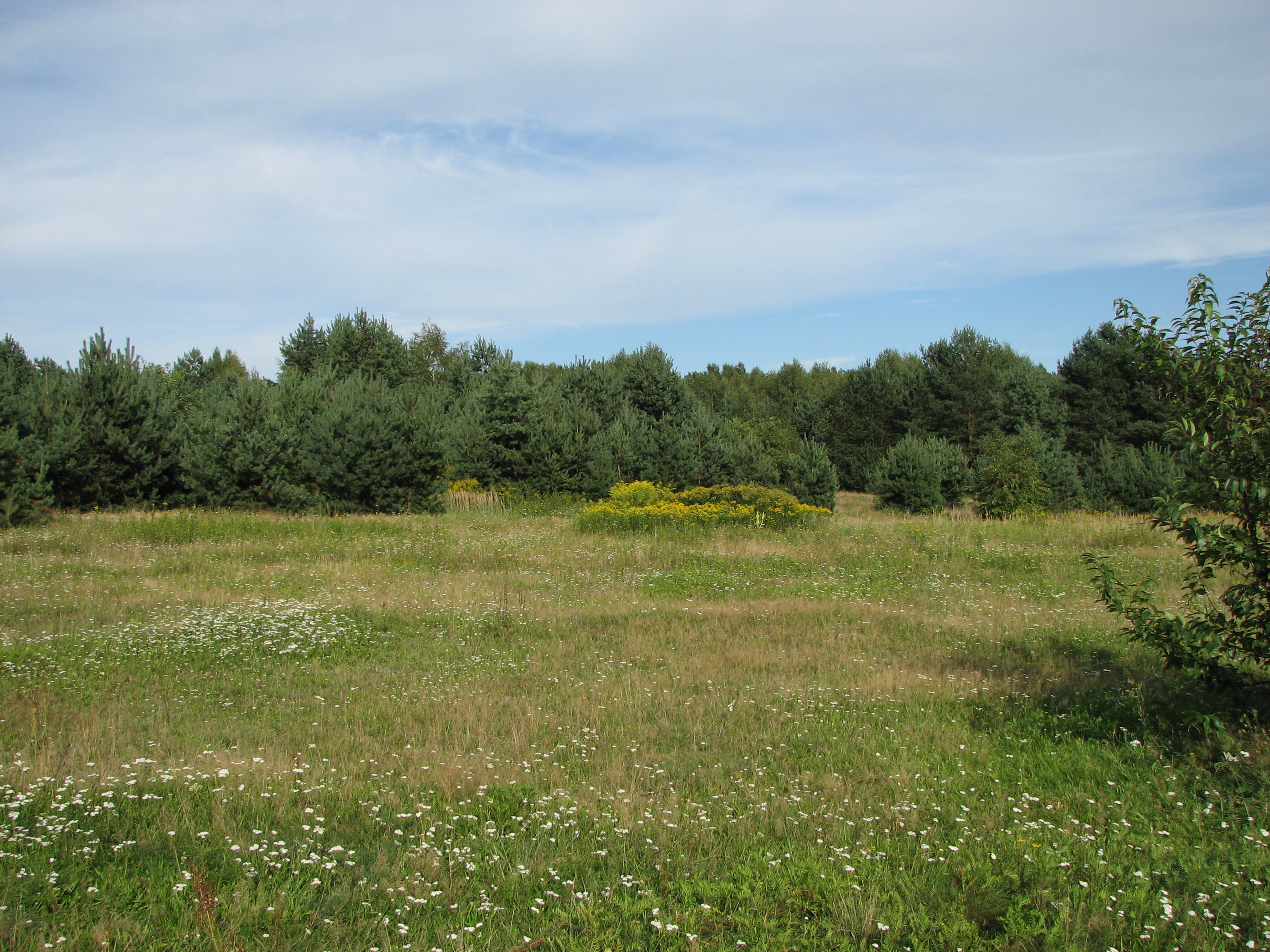 Panewniki's Forests in Katowice, Poland